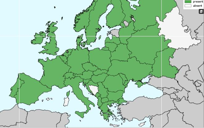 Rasprostranjenje vrste u Evropi (Fauna Europaea)